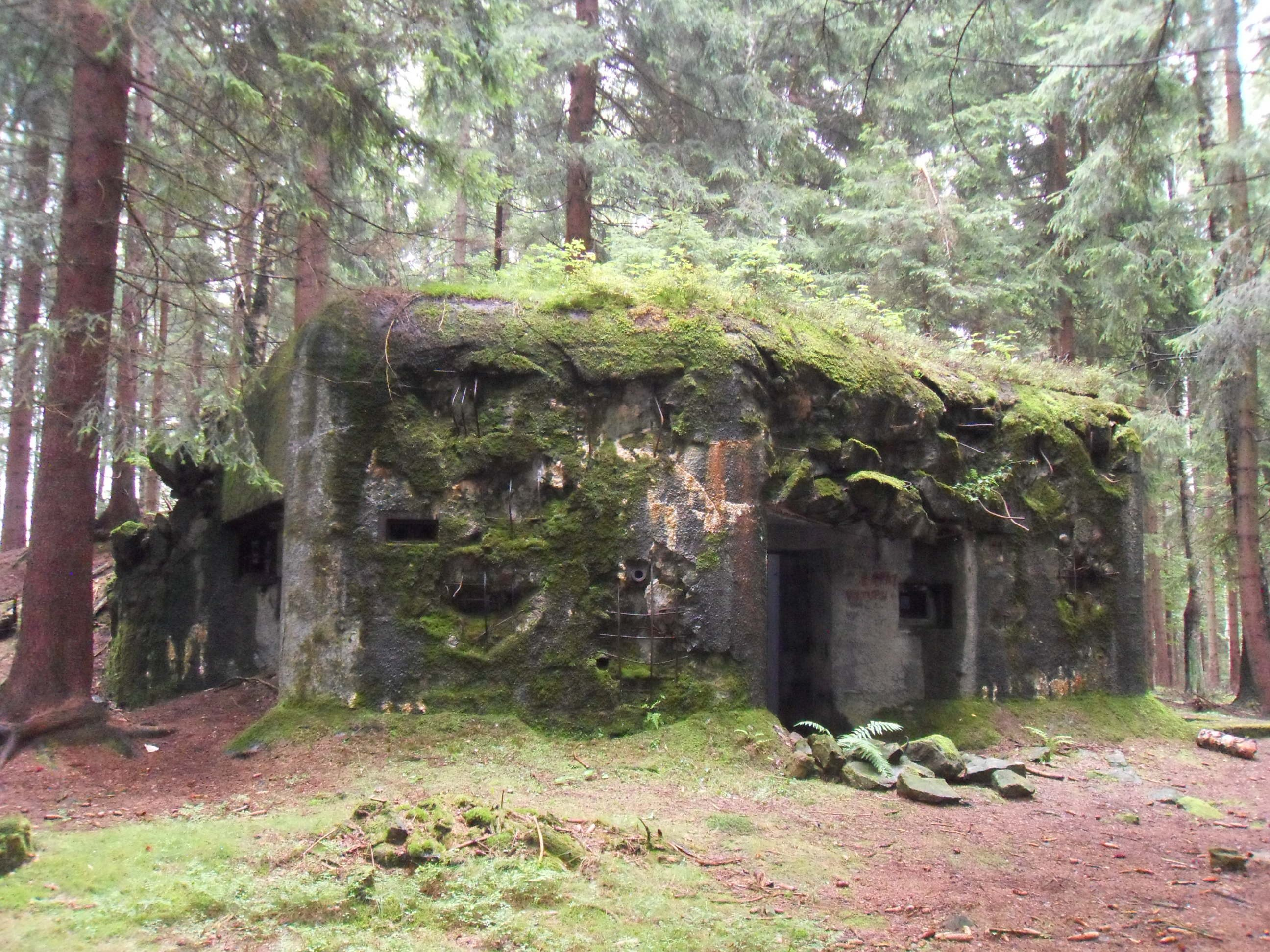 R-S 59 V polomu infantry casemate, Rychnov nad Kněžnou District, Czech Republic